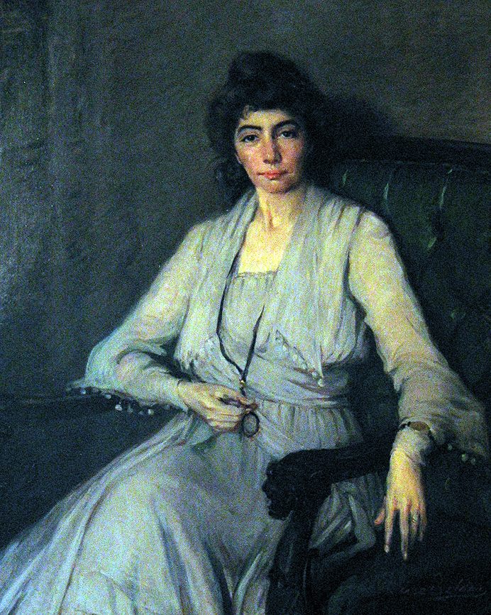 From portrait at Ashland, the Henry Clay Estate. Photograph by Wendy Bright-Levy, Ashland the Henry Clay Estate.